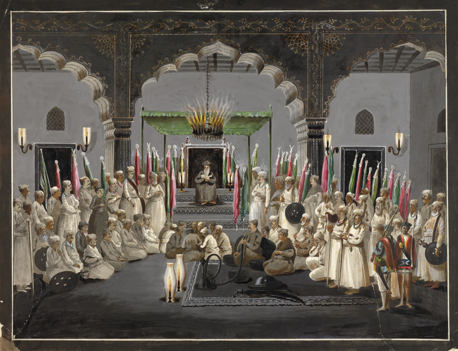 Watercolour of the Muharram Festival, part of the Hyde collection, by an unknown artist working in the Murshidabad style, c. 1795. Inscribed on the back in pencil: 'The Nubob of Moorshedd.- at Prayers'; in ink: 'The Nawaub of Morshedabad at Prayers, a Night Scene.' Asaf al-Daula, Nawab of Awadh from 1775 to1797, ordered the construction of the Great Imambara in 1784 for the purpose of celebrating the Muslim festival of Muharram. The Muharram festival is in commemoration of the imams Ali, Hasan, and Hussein. This festival starts on the 1st day of Muharram, the first month of the Islamic calendar, and lasts for 10 days. In this view, the Nawab is shown listening to the 'maulvi' reading from the scriptures in the hall of the Imanbara. Subsequently, the building was used as a mausoleum for Asaf ud-Daula upon his death in 1797.